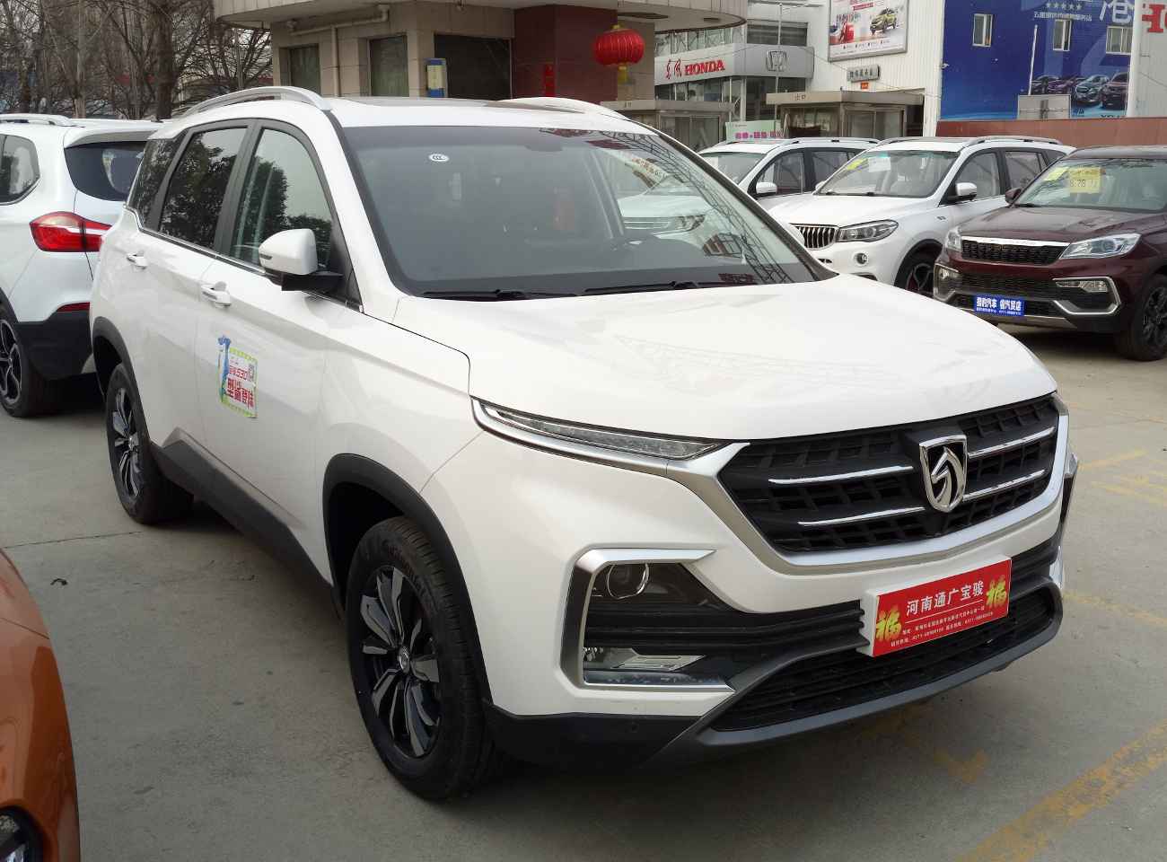 Baojun 530 photographed in Zhengzhou, Henan province, China.